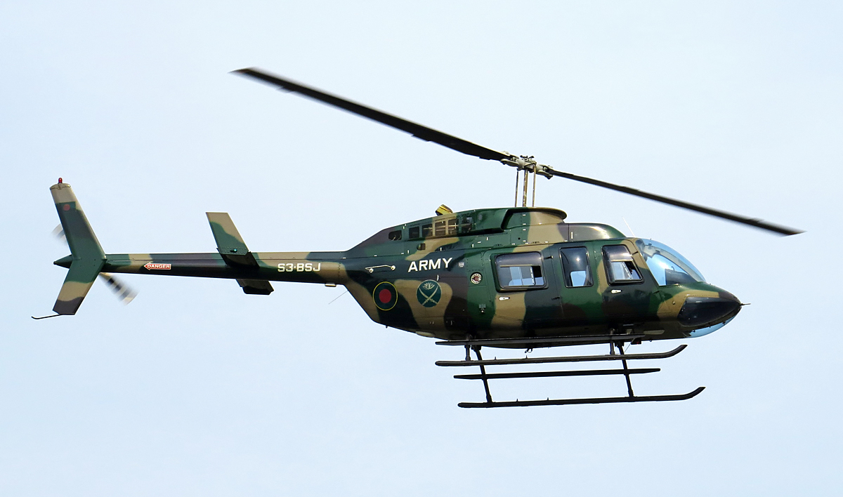 VGTJ 2016 | one of two currently in service, the other one being S3-BPH ( Hanger shot